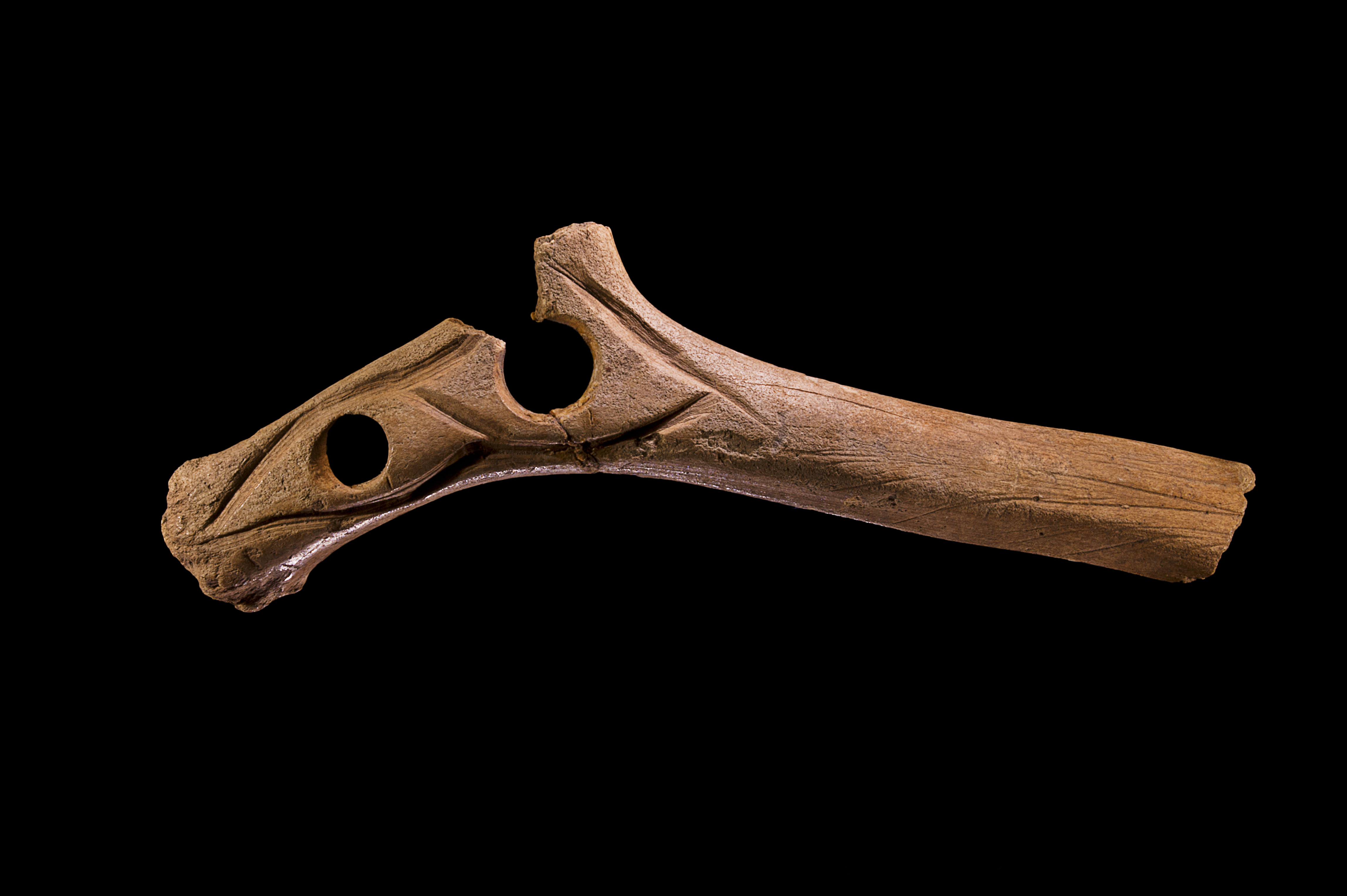 Pierced rod in length of antler Stage : Magdalenian (to 17 000 from 10 000 Before the Current Era) Locality : La Madeleine, Tursac, Dordogne France Former collection of Édouard Lartet (1801 - 1871) Muséum of Toulouse MHNT.PRE.2010.0.1.2 Size : 165x48x21 mm